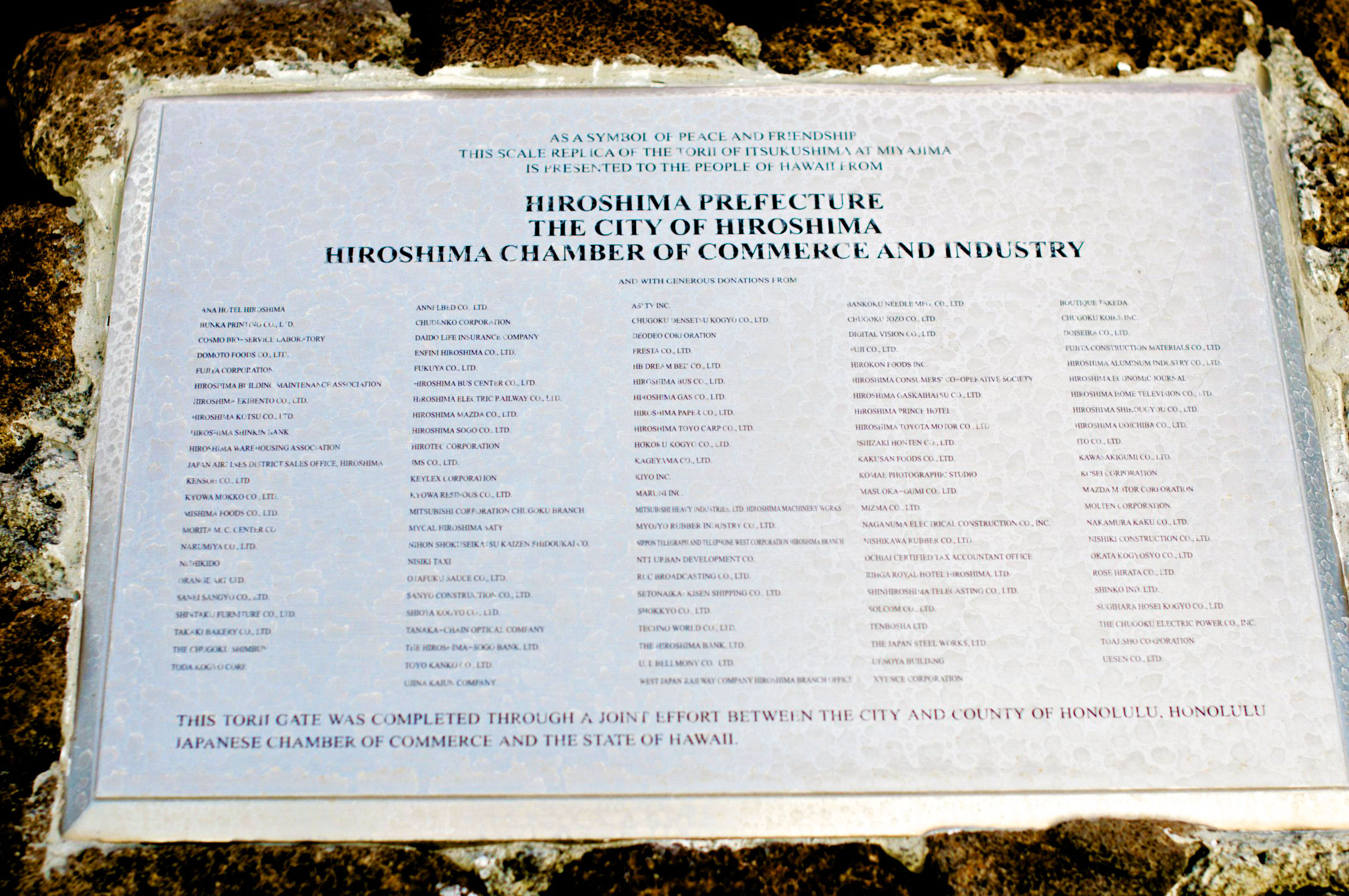 Plaque giving recognition to those who helped erect the Itsukushima replica torii in Honolulu, Hawaii